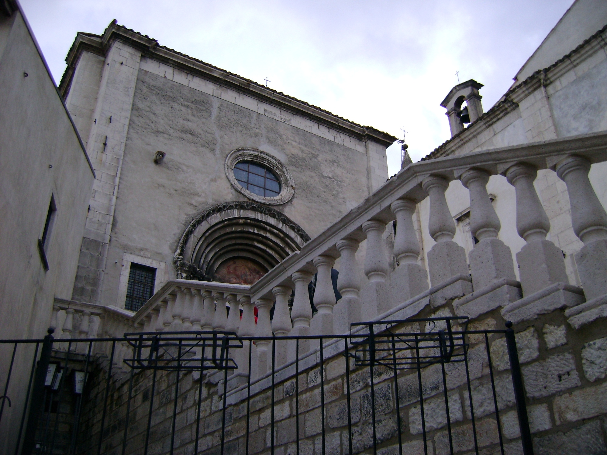 La basilica di Santa Maria del Colle, Pescocostanzo, provincia dell'Aquila, Abruzzo